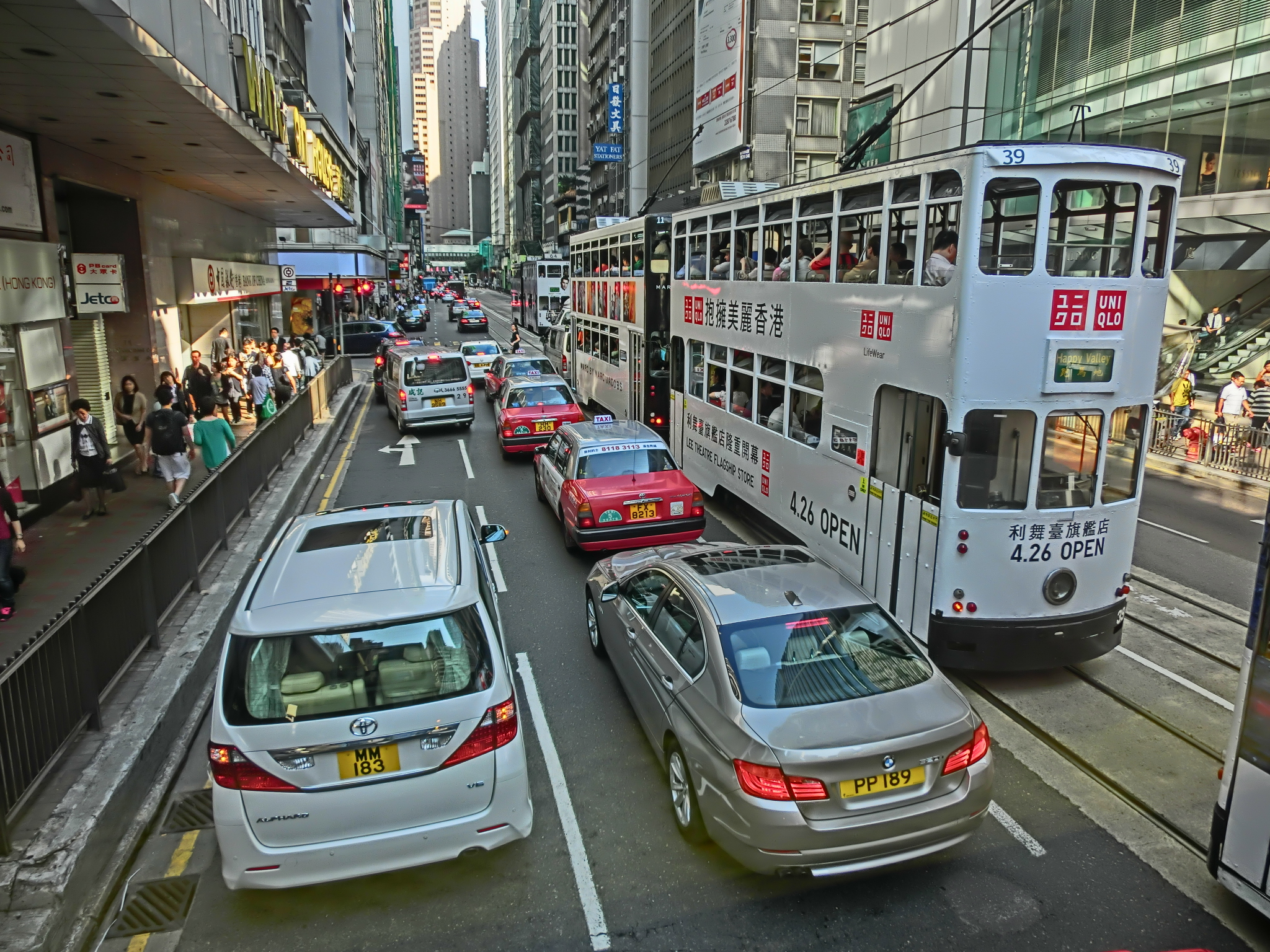 中環, Des Voeux Road Central, Hong Kong